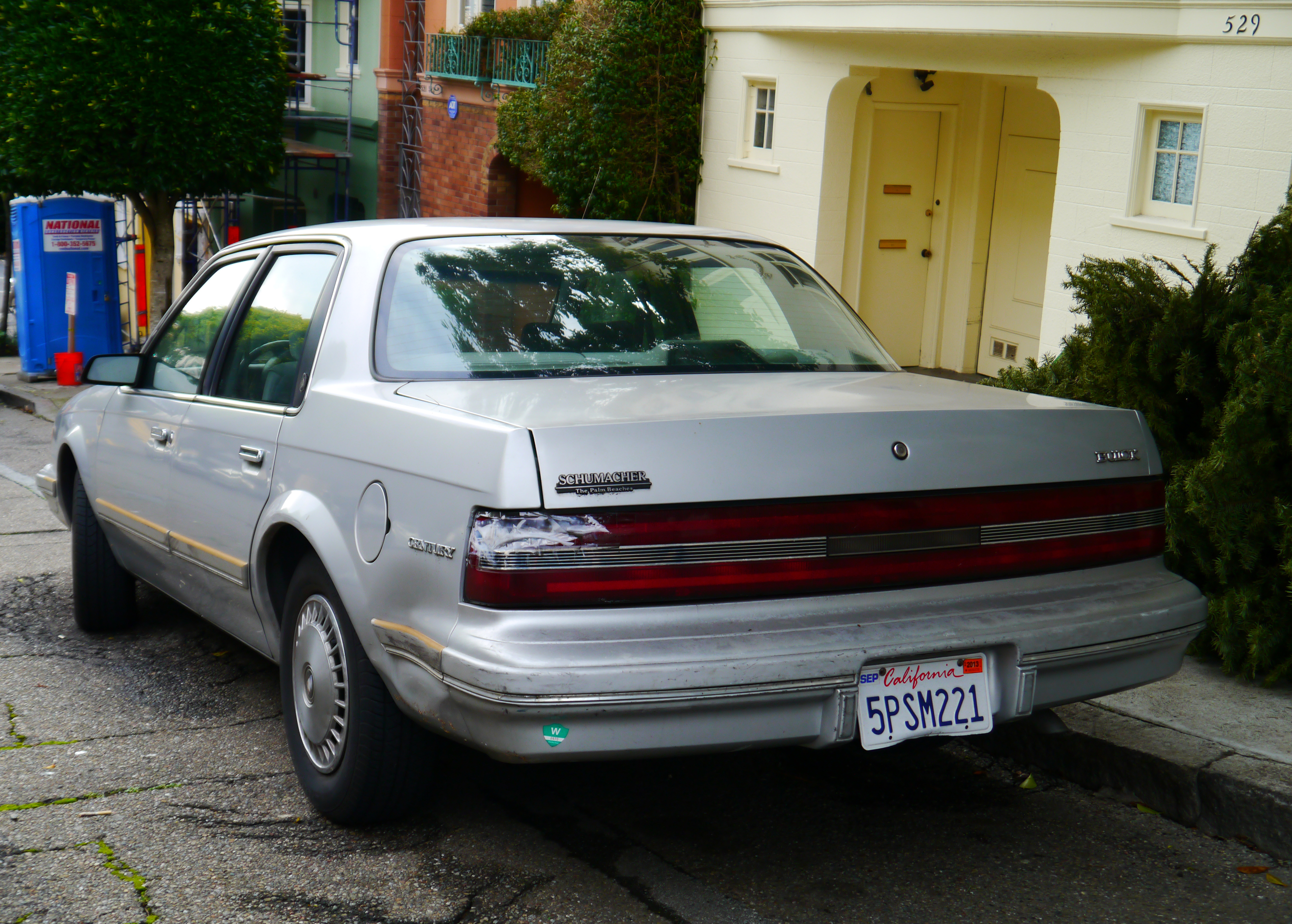 1994 Buick Century sedan.